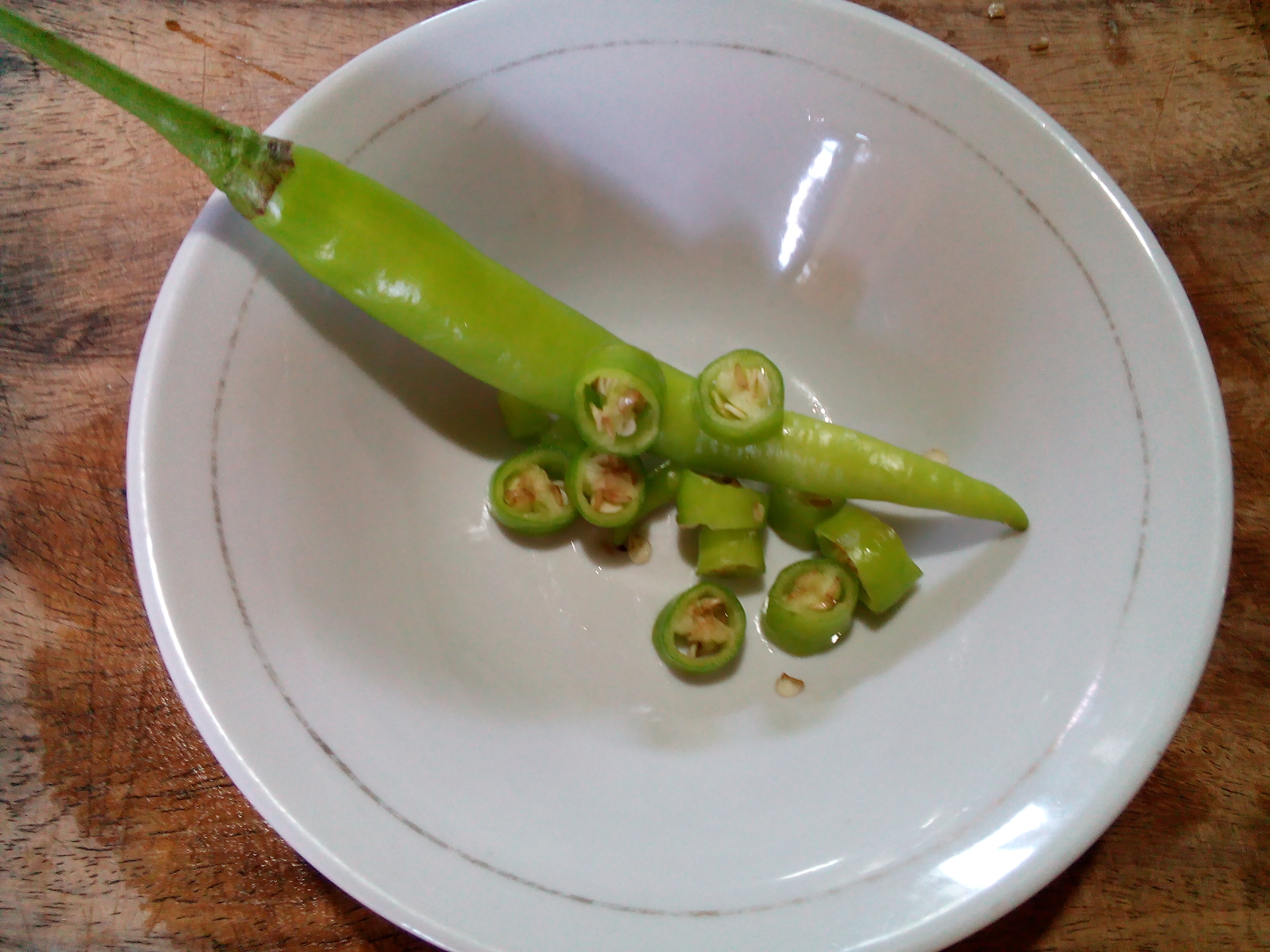 Chopped and unchopped siling mahaba.